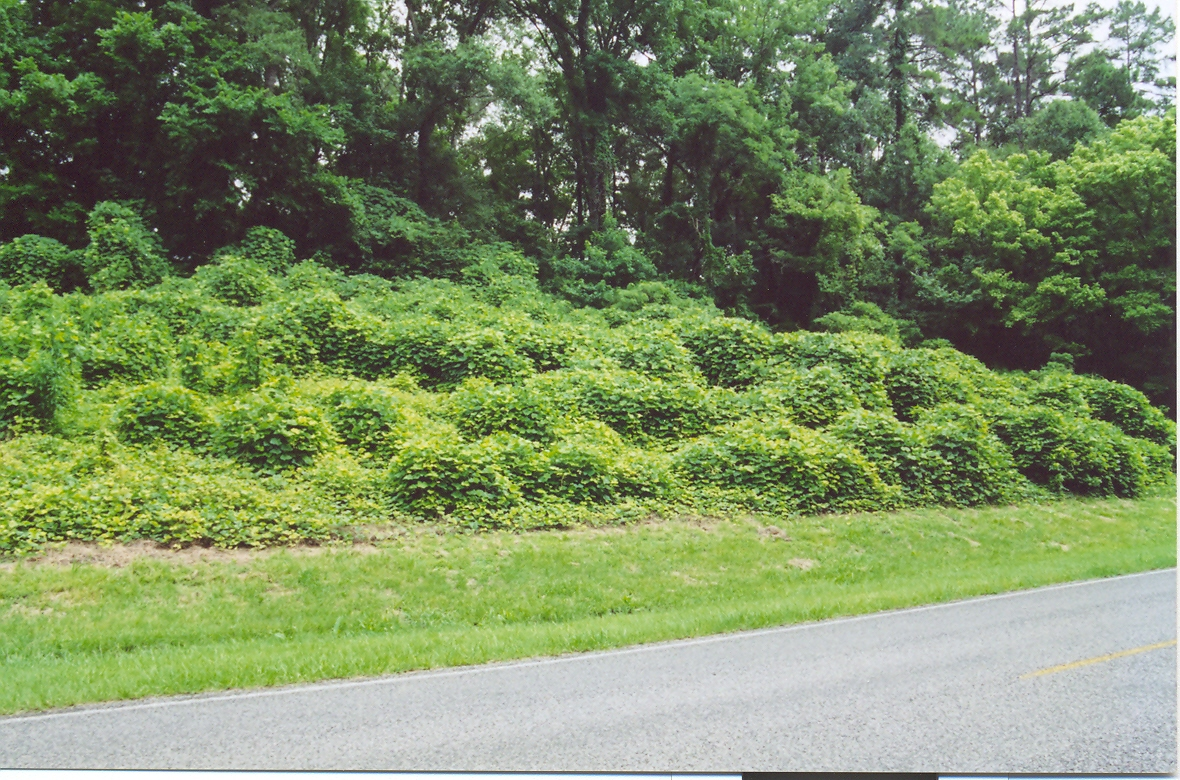 Growth of Kudzu near Natchez Trace Parkway Photo by Jan Kronsell, 2002 A copy from Image:Kudzu.jpg